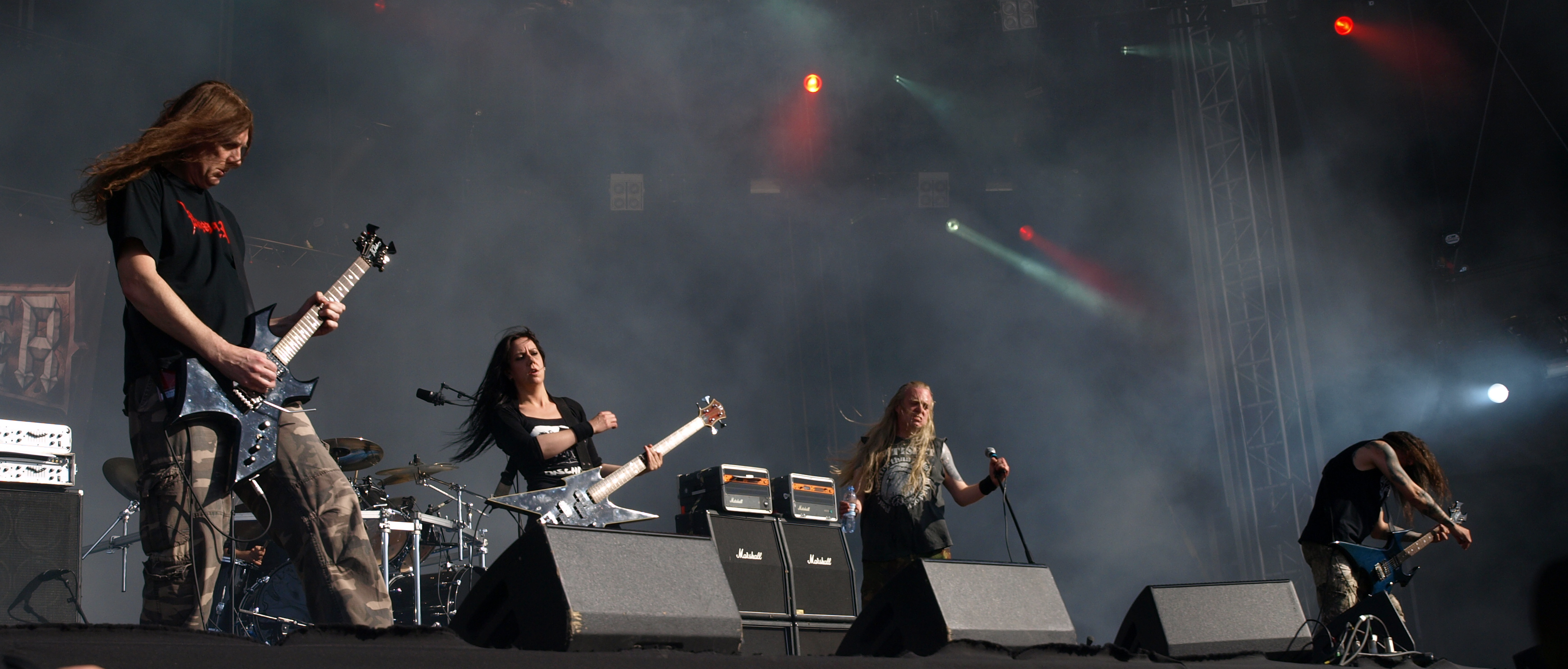 British death metal band Bolt Thrower live atTuska Open Air 2013